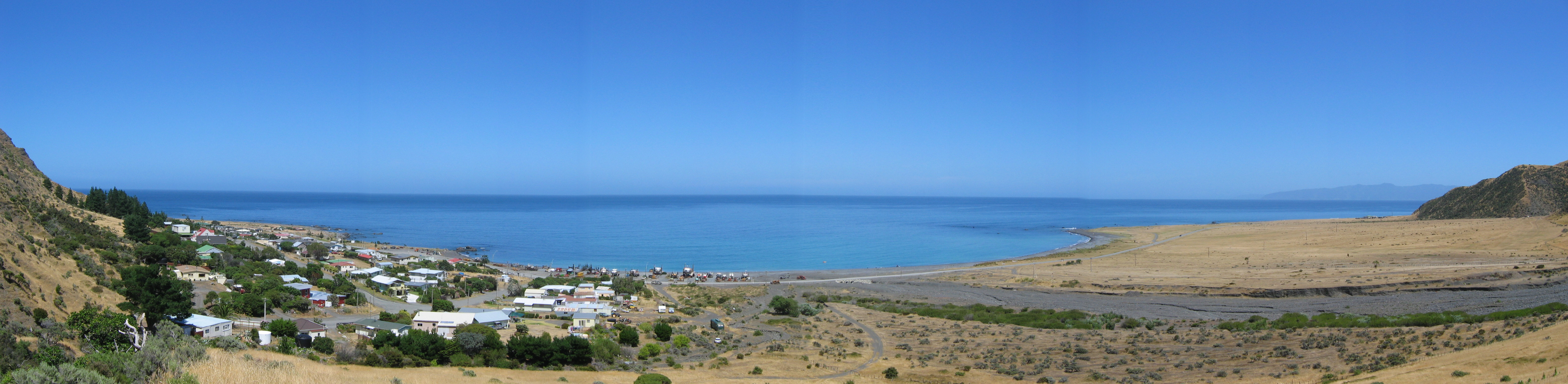 Pamoramic View of Ngawi Village and Cape Palliser.